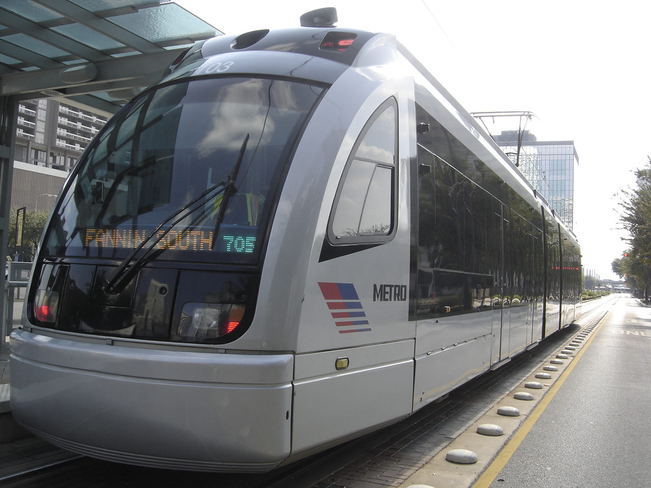 METRORail, Houston, Texas